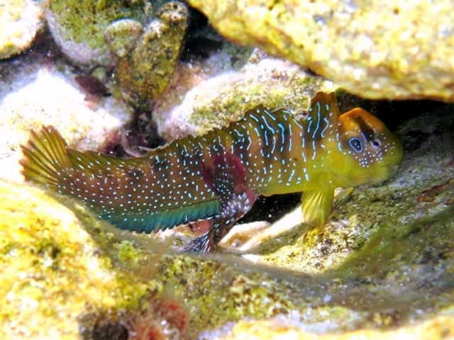 Male Salaria pavo photographed in Cres, Croatia.